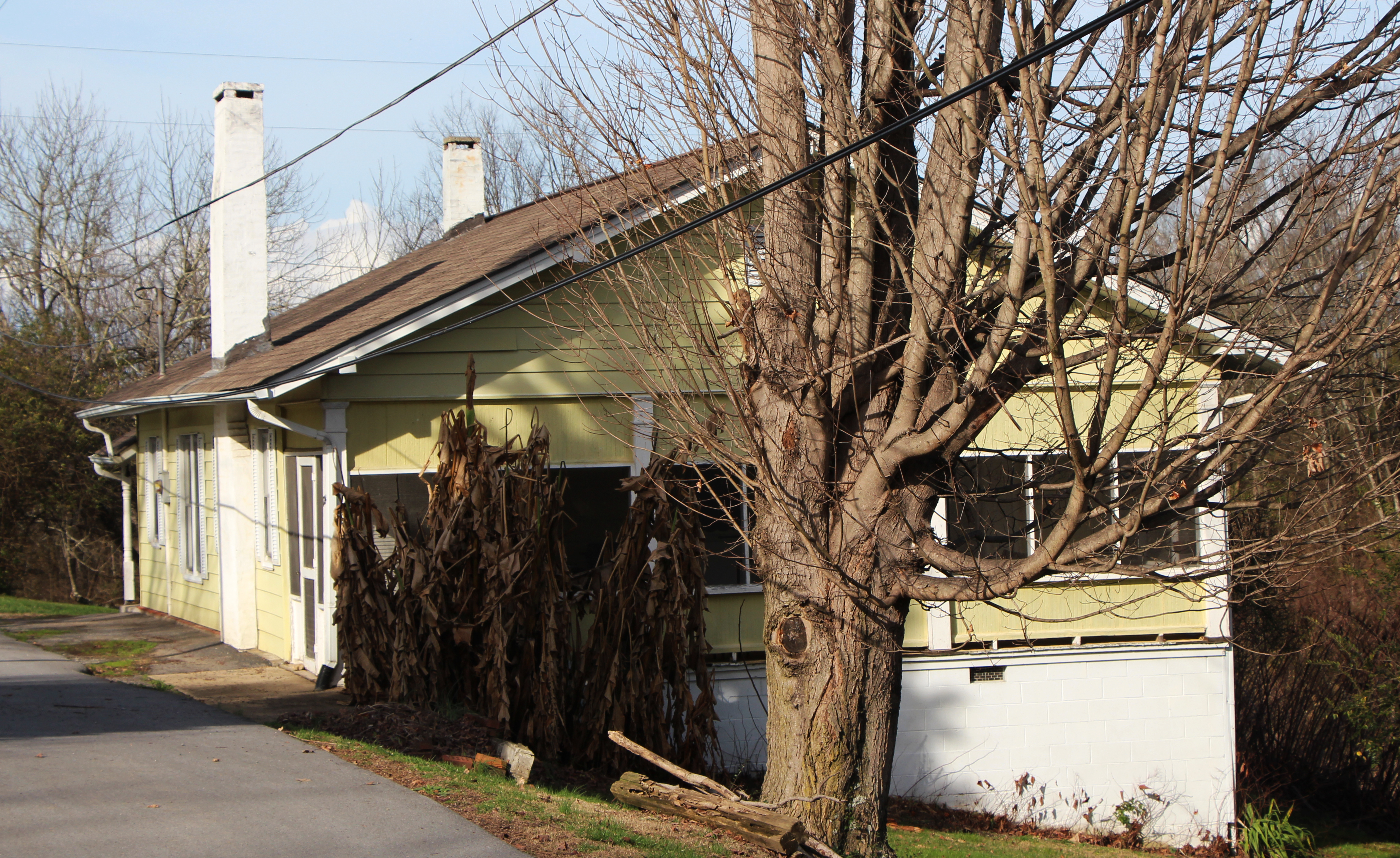 Miller House, 124 Church Street, Bulls Gap, TN